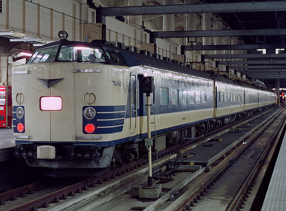 JNR 583 series EMU for the Limited Express Yuzuru at Ueno Station